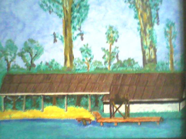 Painting of Kissengen Springs. Done by Ron Drake.